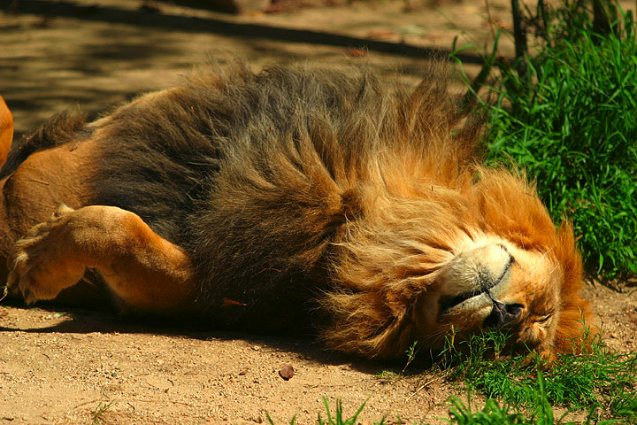 Lion (Panthera leo) at the San Diego Zoo